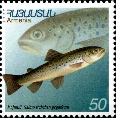 Stamp of Armenia